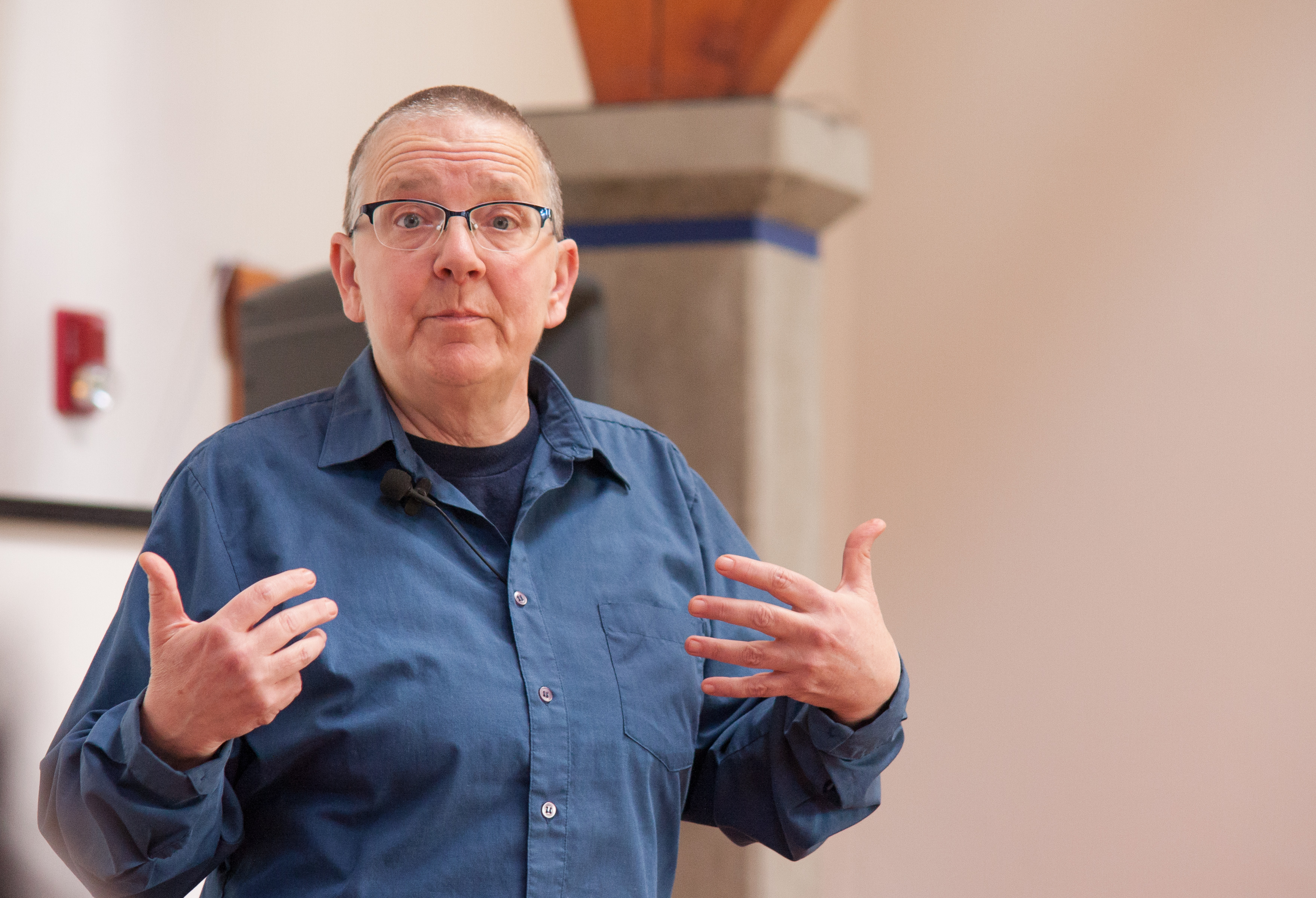 pattrice jones speaks at the Intersectional Justice Conference at the Whidbey Institute.